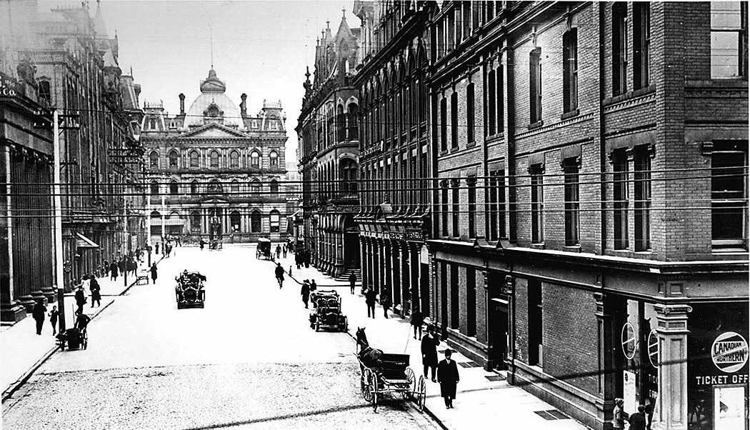 Toronto Street, looking north from King Street East, Toronto, Canada.